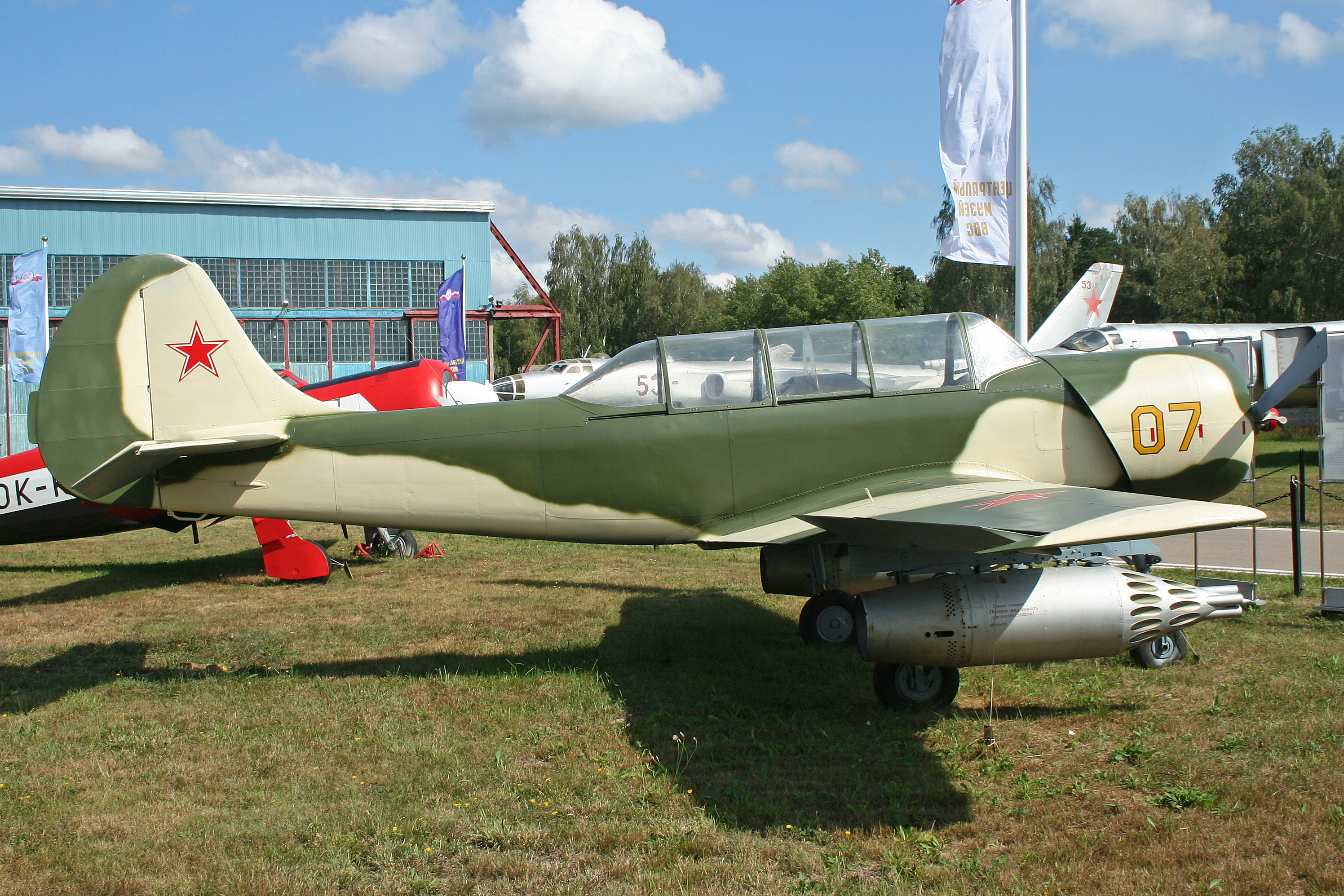 This is clearly an armed version of the popular Yak-52 aerobatic two-seat trainer. The underwing hardware is impressive! This aircraft is one of several small Yak types which had only recently gone on display. c/n 780102. Russian Air Force Museum. Monino, Russia. 13-8-2012